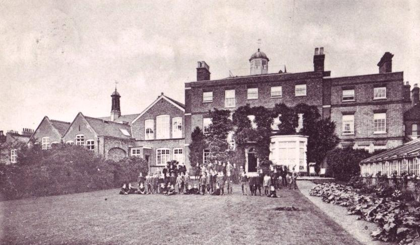 Back of the former grammar school in Wisbech. The photograph is in the public domain by virtue of its age.